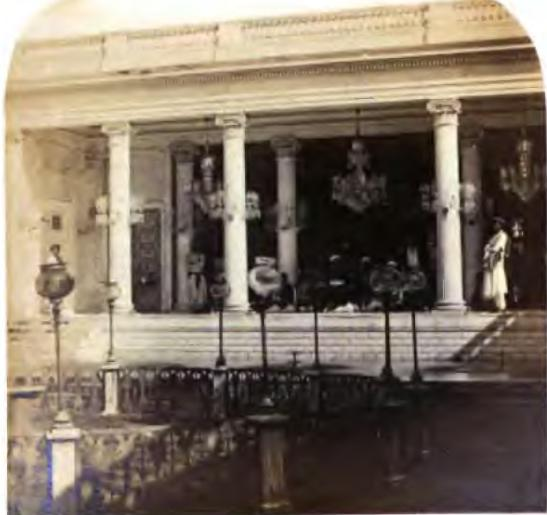 Supreme Commander Hyderabad State Forces Shums ul-Umra, son and grandson in the yard of his residence.